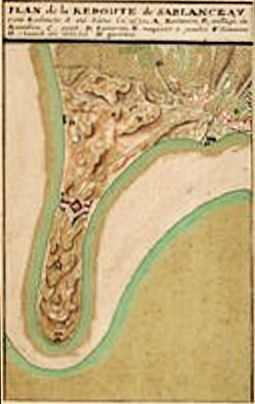 Redoute de Sablanceaux, 1722.